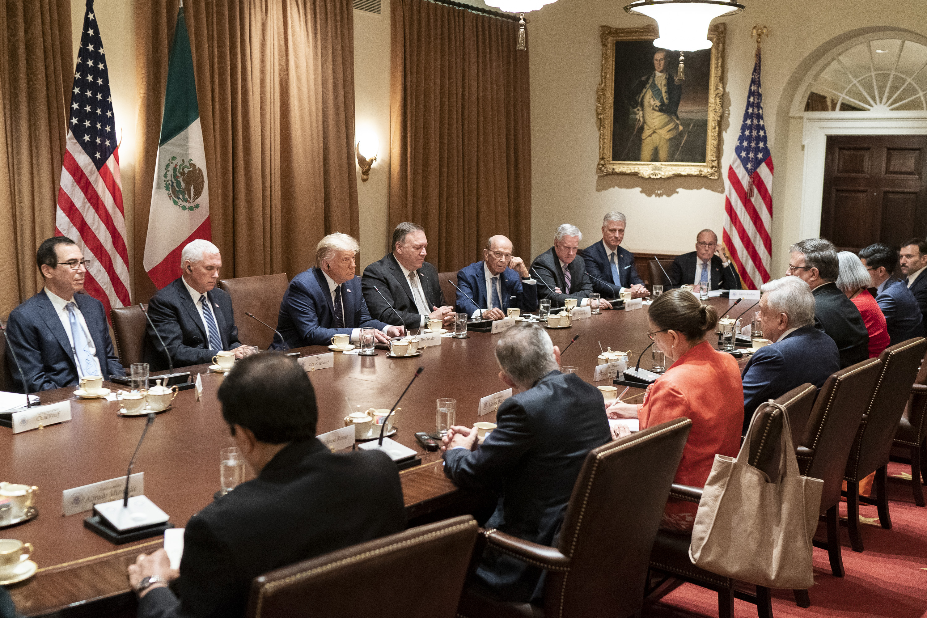 President Donald J. Trump, joined by Vice President Mike Pence and members of his Cabinet, participates in an expanded bilateral meeting with Mexican President Andres Manuel Lopez Obrador Wednesday, July 8, 2020, in the Cabinet Room of the White House. (Official White House Photo by Shealah Craighead)